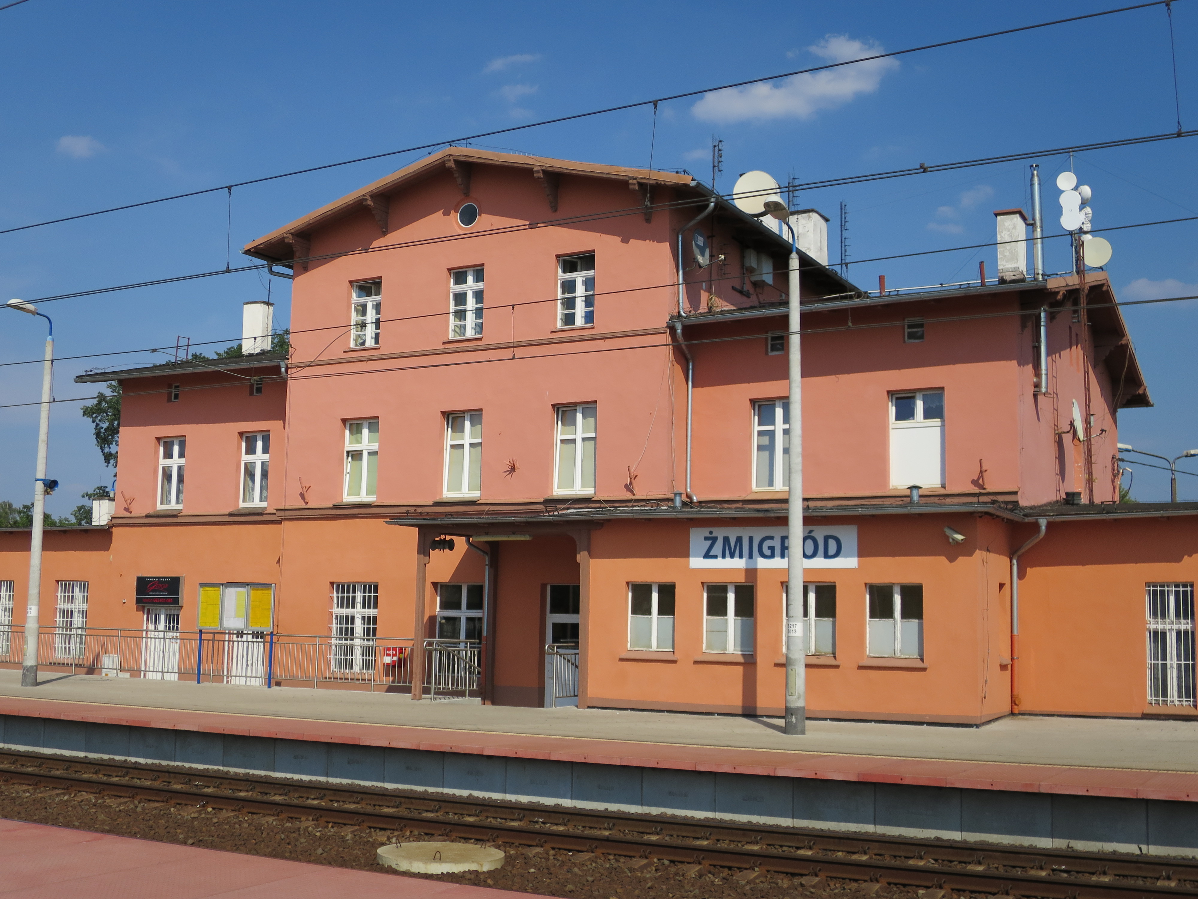 Dworzec w Żmigrodzie This photo was taken during Railway Wikiexpedition 2015 set up by Wikimedia Polska Association in cooperation with Fundacja Grupy PKP. You can see all photographs in category Wikiekspedycja kolejowa 2015.